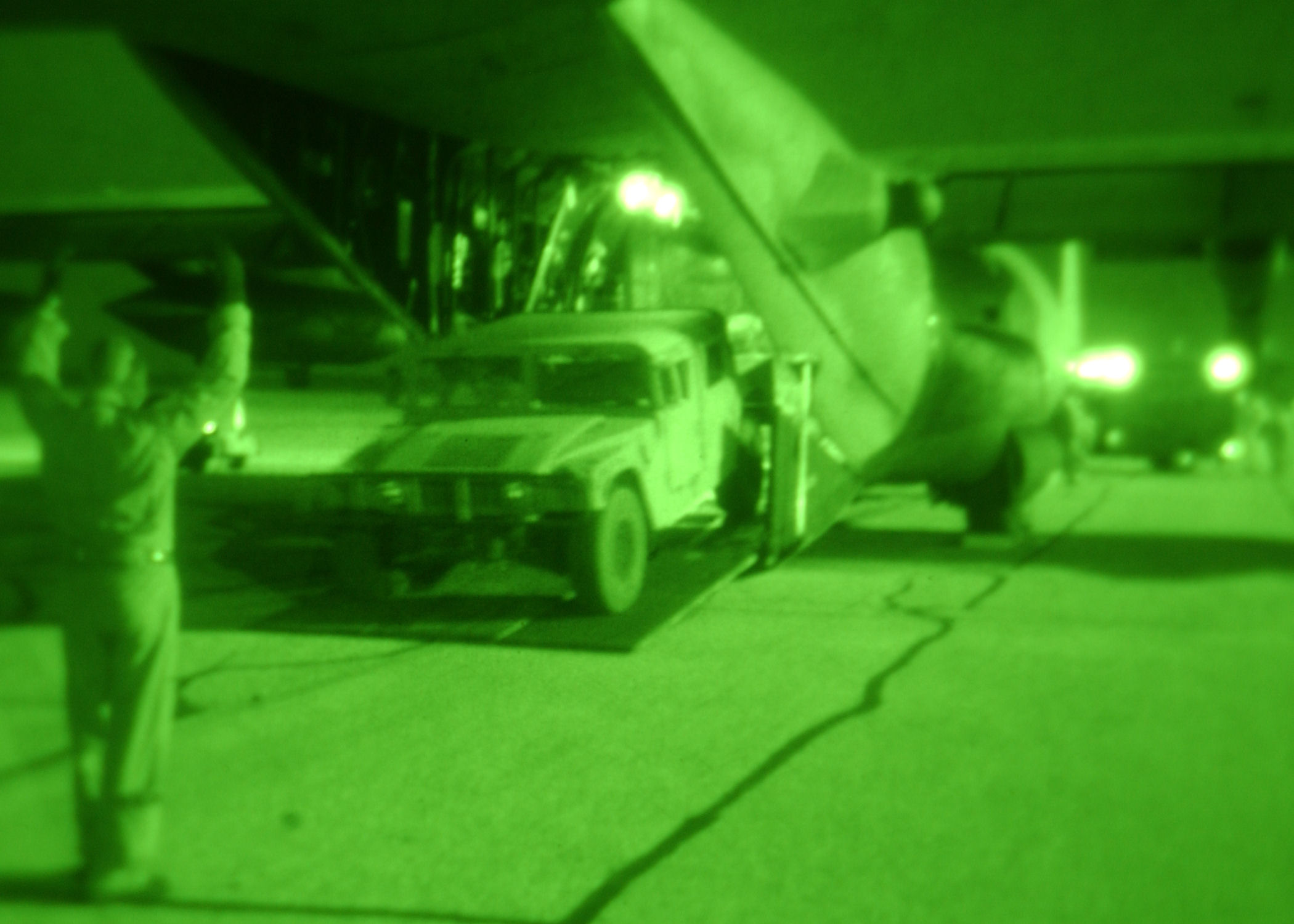 Senior Master Sgt. Thomas Mason, 711th Special Operations Squadron loadmaster, performs static load training with a special operations team for rapid infiltration. The training is required before an actual mission so that both the team and aircrew members are familiar with their positions and responsibilities through each phase of the mission. The training, which took place during the Operational Readiness Inspection here, is a night-vision goggle operation.